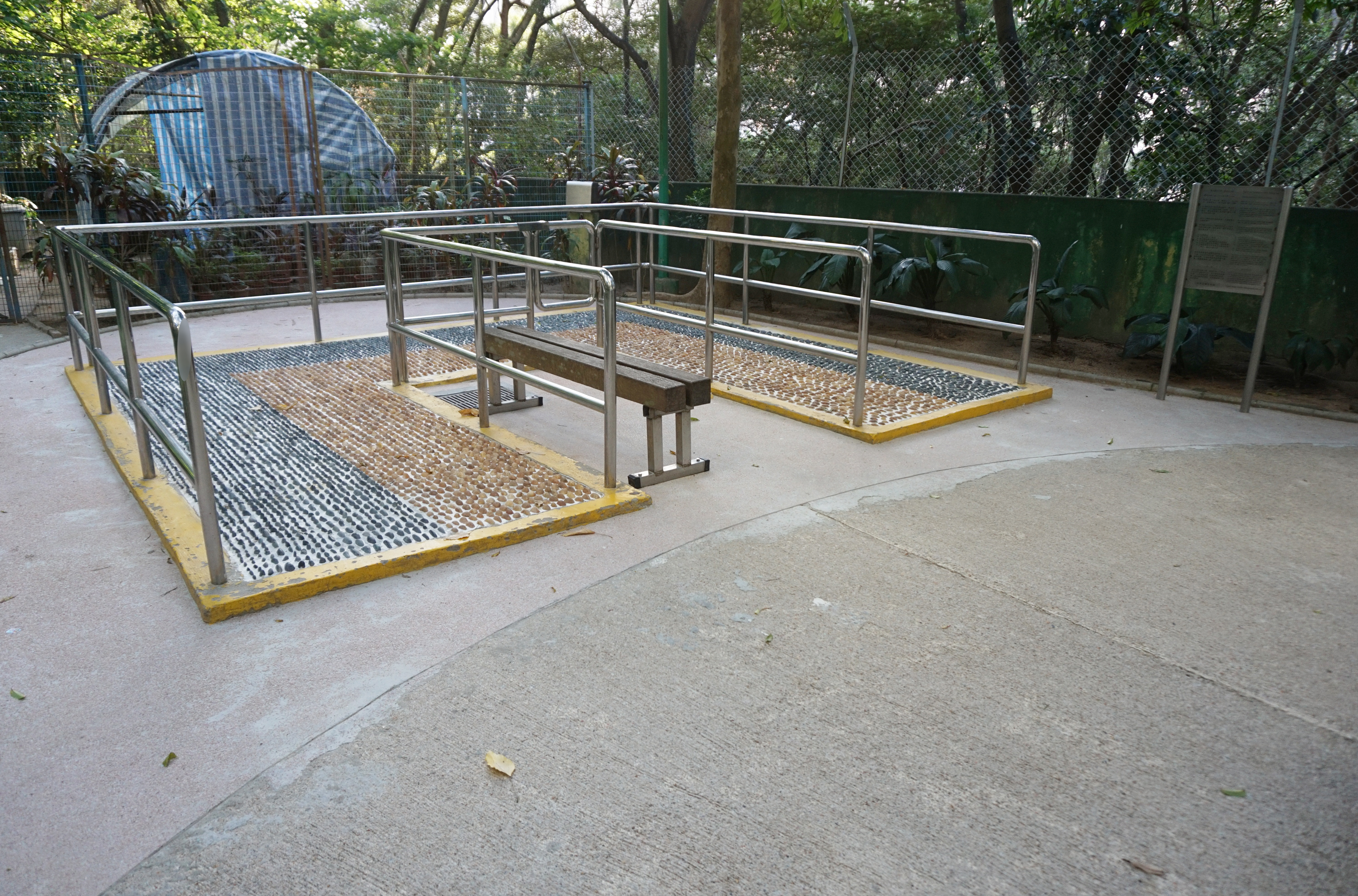 Saddle Ridge Garden in Ma On Shan, Hong Kong.